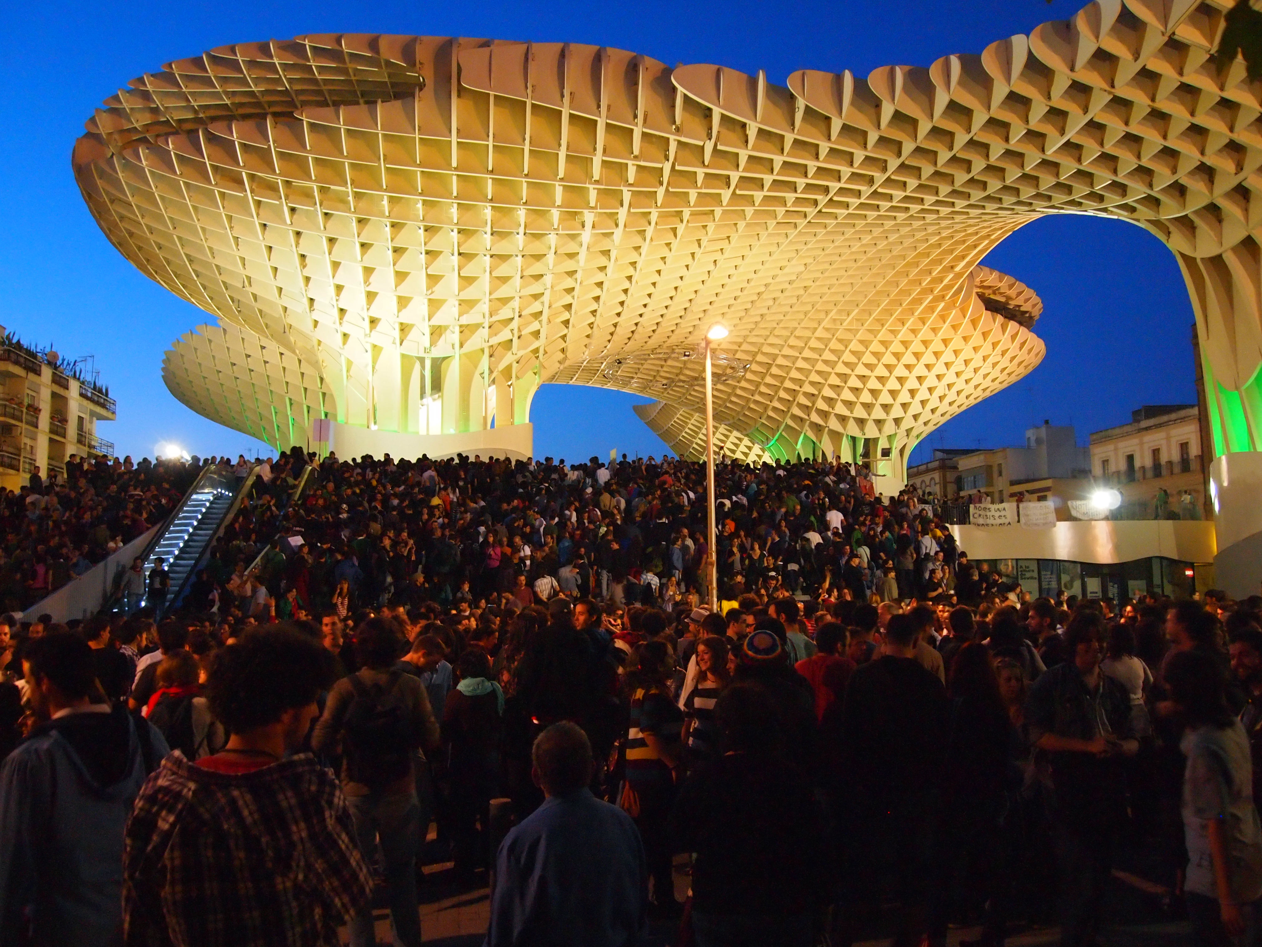 Demonstrations in Sevilla under the Metropol Parasol